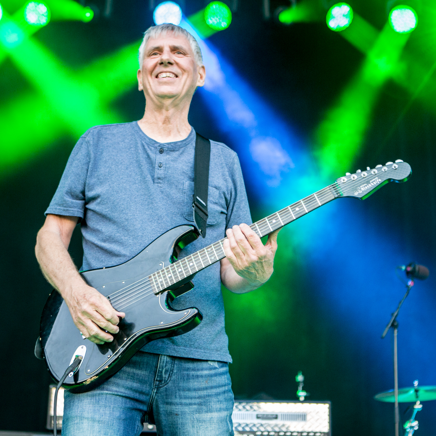 Greg Ginn performing with Black Flag in Denver, CO - 04/24/19